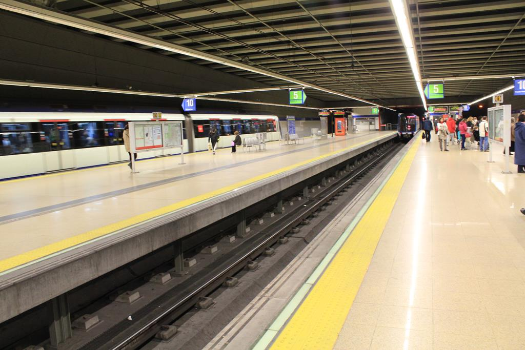 Casa de Campo station on lines 5 and 10 of the Madrid Metro